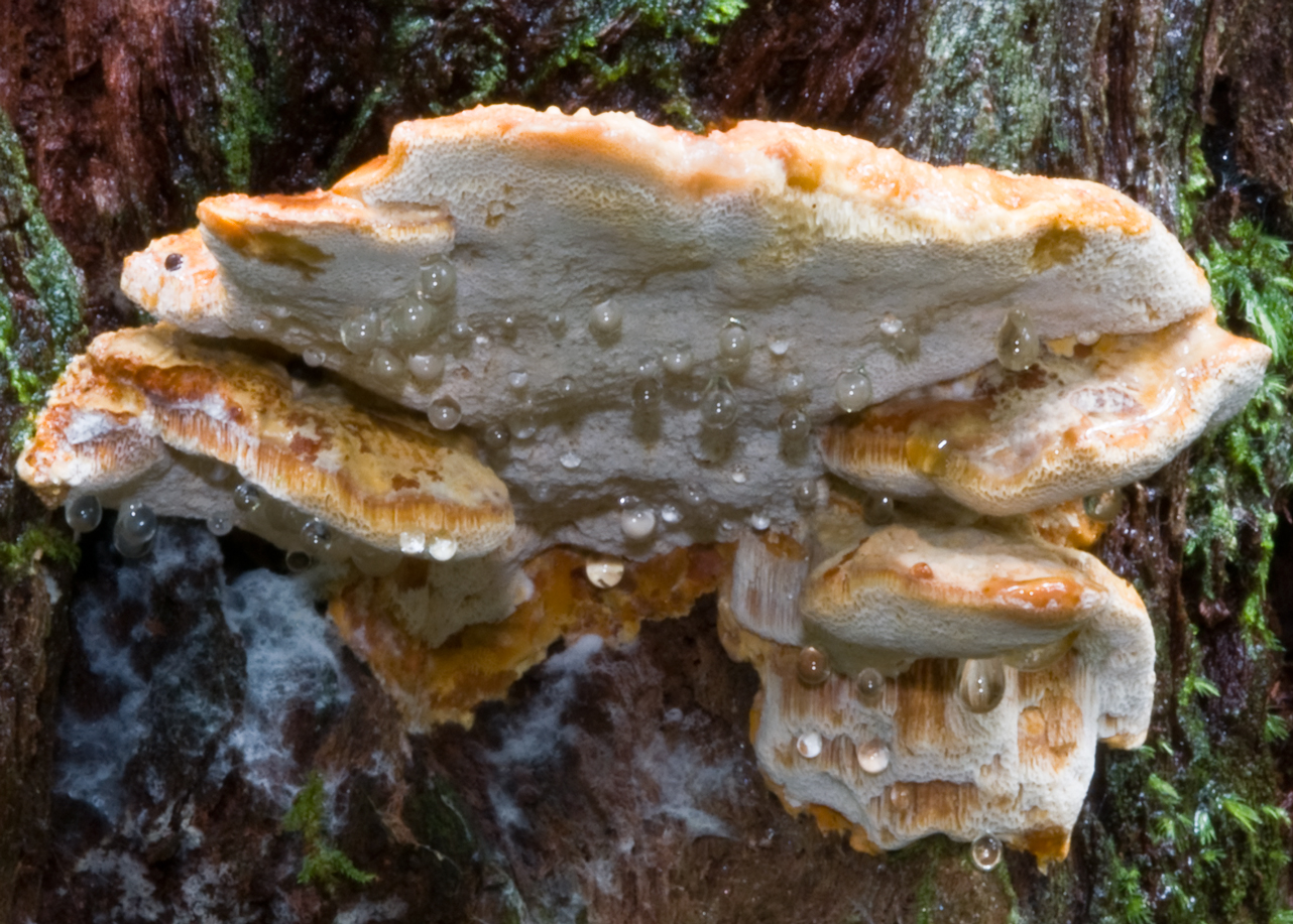 The polypore mushroom Ryvardenia cretacea (Lloyd) Rajchenb. Photographed in Comboyne State Forest, New South Wales, Australia.